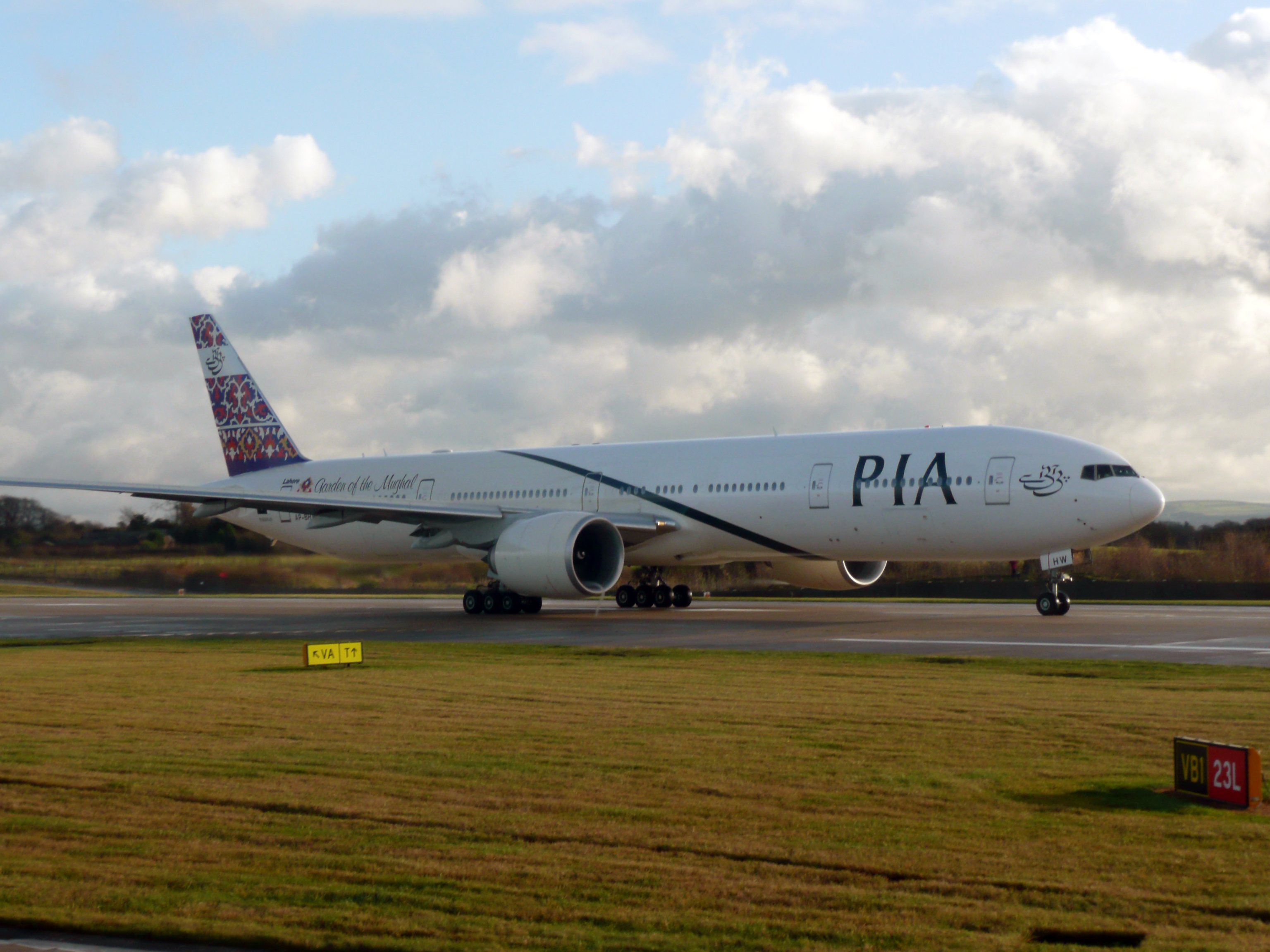 A Boeing 777-340ER Registered AP-BHW of Pakistan International Airlines